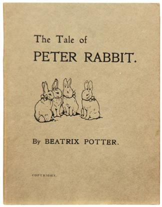 Cover of the first, privately printed edition of The Tale of Peter Rabbit by Beatrix Potter